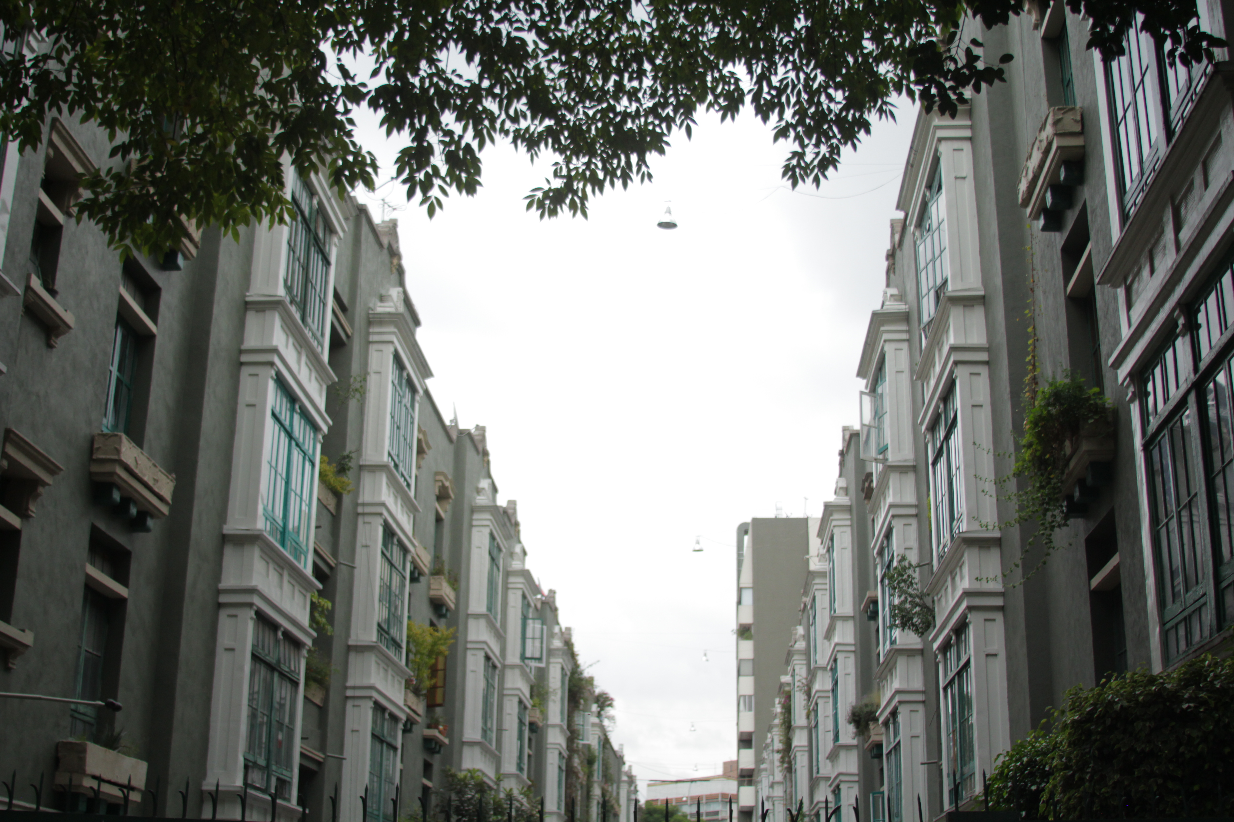 Edificio Condesa located in Col. Condesa in Mexico City.